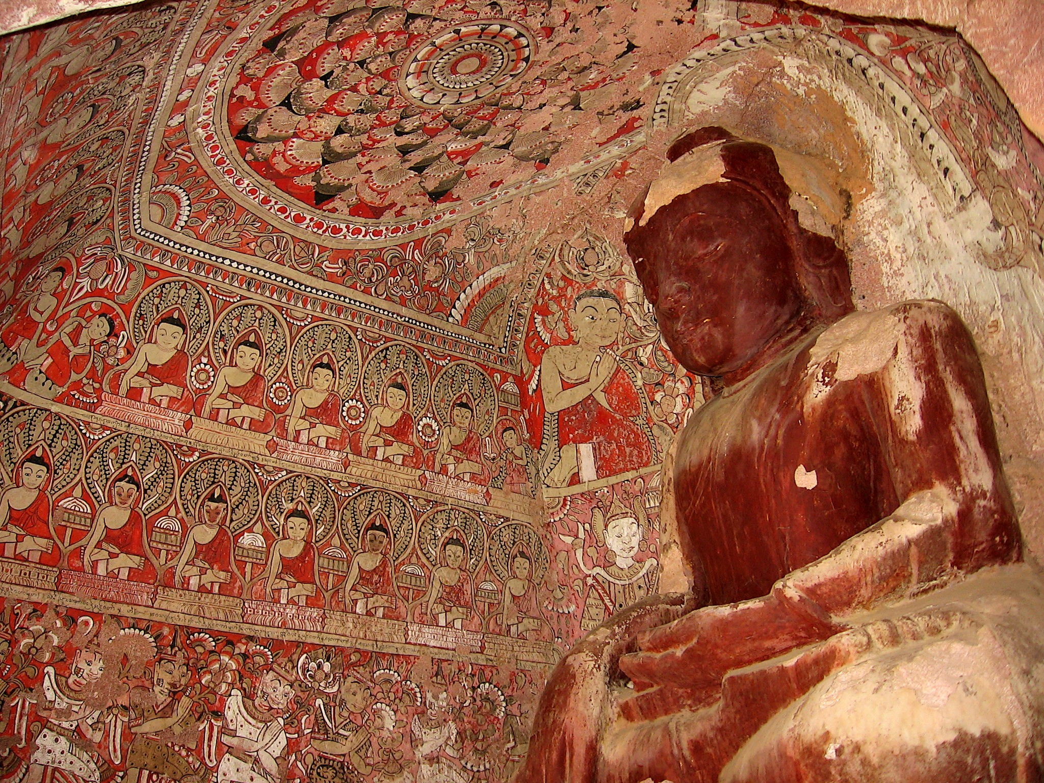 Hpo Win caves, near Monywa, Myanmar.